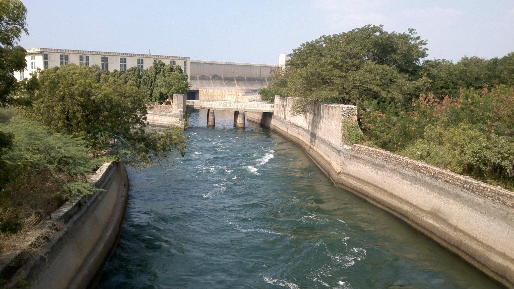 Nagarjun Sagar